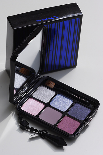 Winter 2006 limited edition pleat Pink Freeze, Fineshine, Dovefeather, Chillblue, Nocturnele, Formal Black